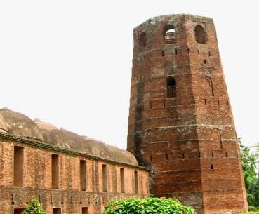 Image from the Katra Masjid Mosque